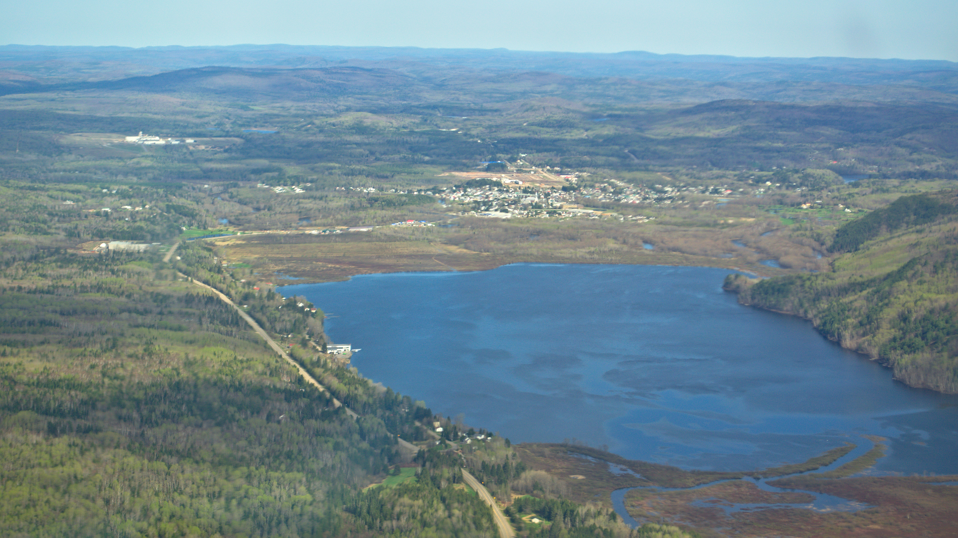 aerial view on St-Michel-des-Saints